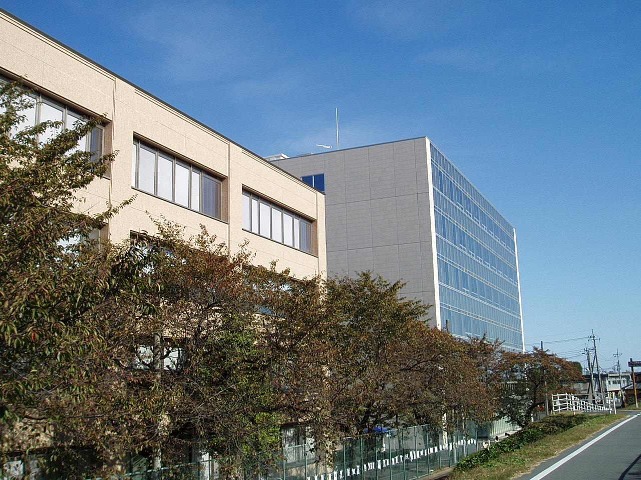 The Buildings 6 (left) & 7 of Takasaki City University of Economics.